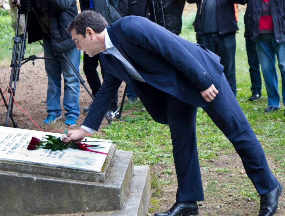 Greek Prime Minister Alexis Tsipras lays down red roses at the National Resistance Memorial, Kaisariani on 26 January 2015.